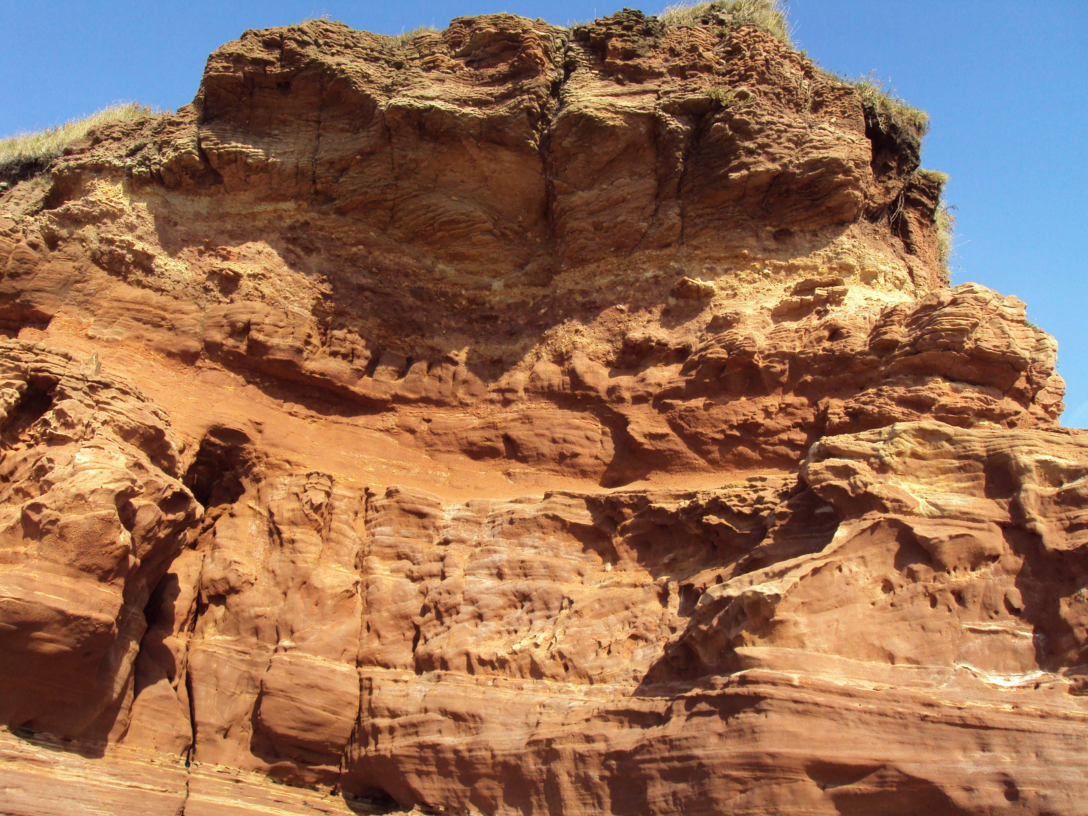 Red sandstone of Hilbre Island, Wirral, England.